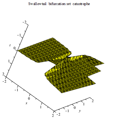 Swallowtail integral Bifurcation catastrophe